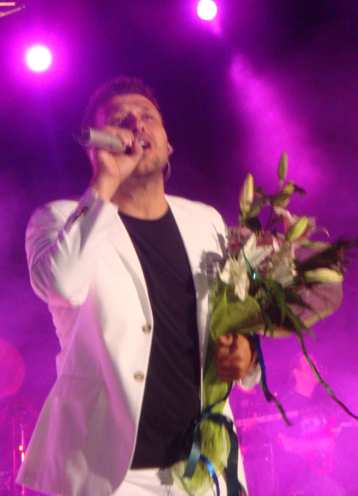 Greek singer Giannis Ploutarchos during an outdoors concert in Pierikos stadium, Katerini, Greece.